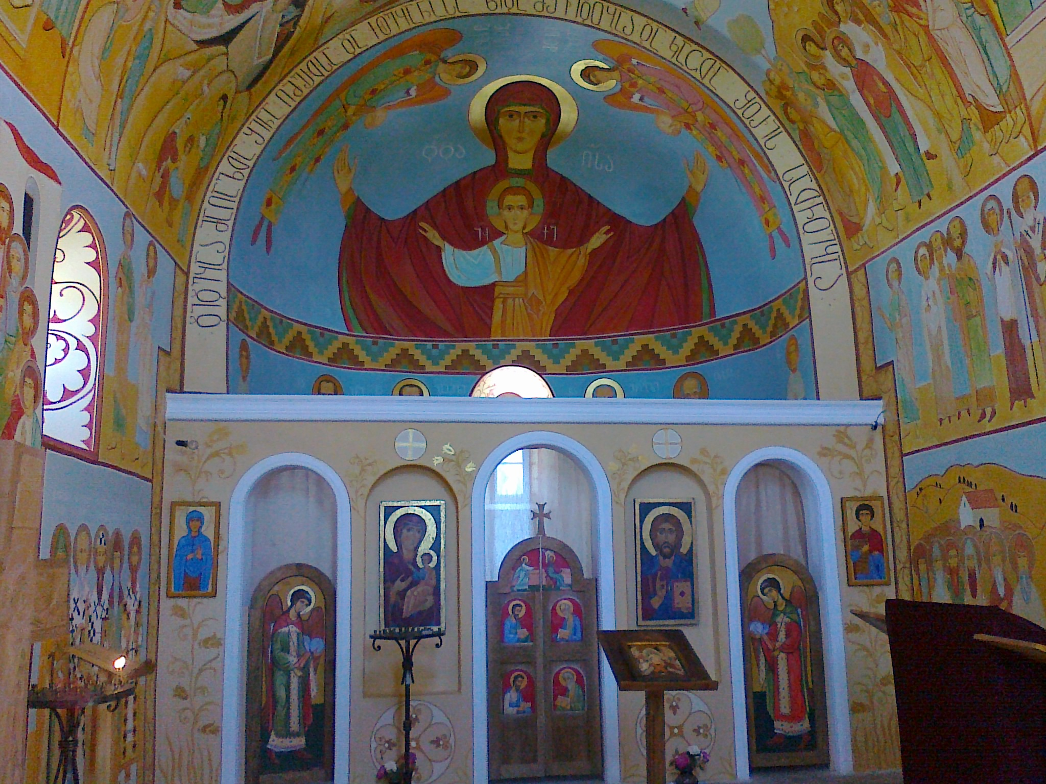 Lamiskana st. George church - iconostas